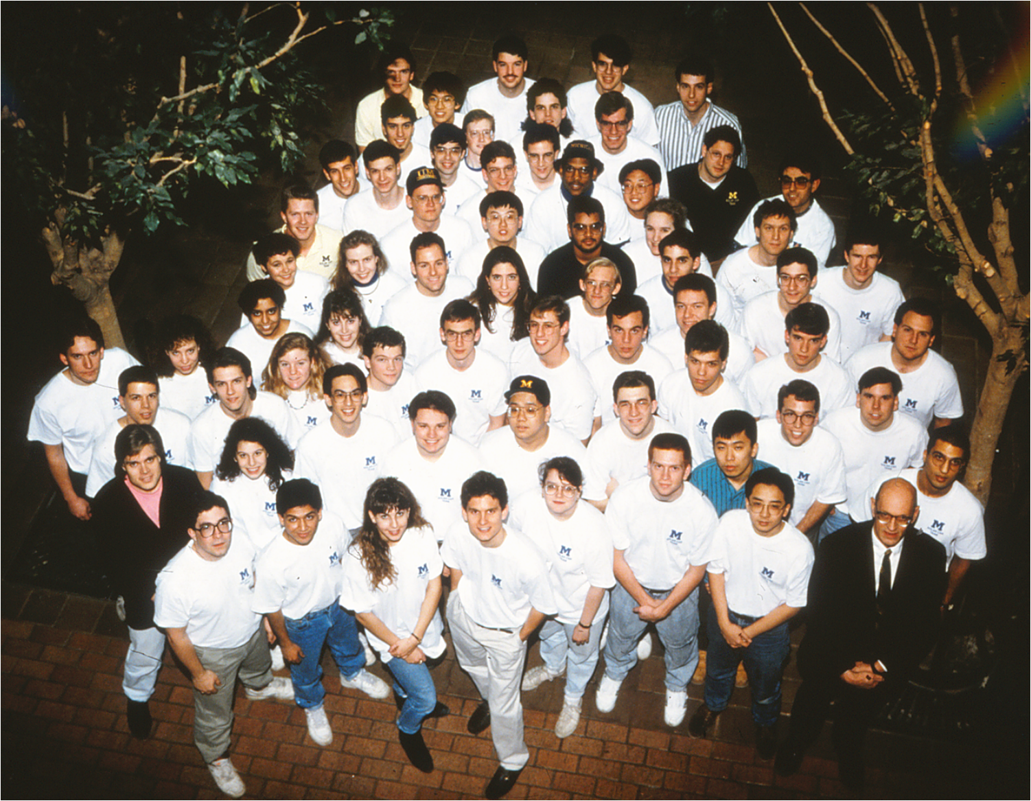 Team photo of the 1993 University of Michigan solar car team.